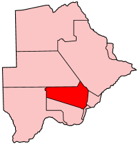 Map of Botswana showing Kweneng district.